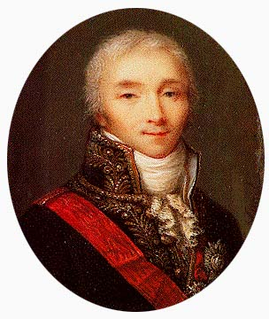 Joseph Fouché 1763-1820